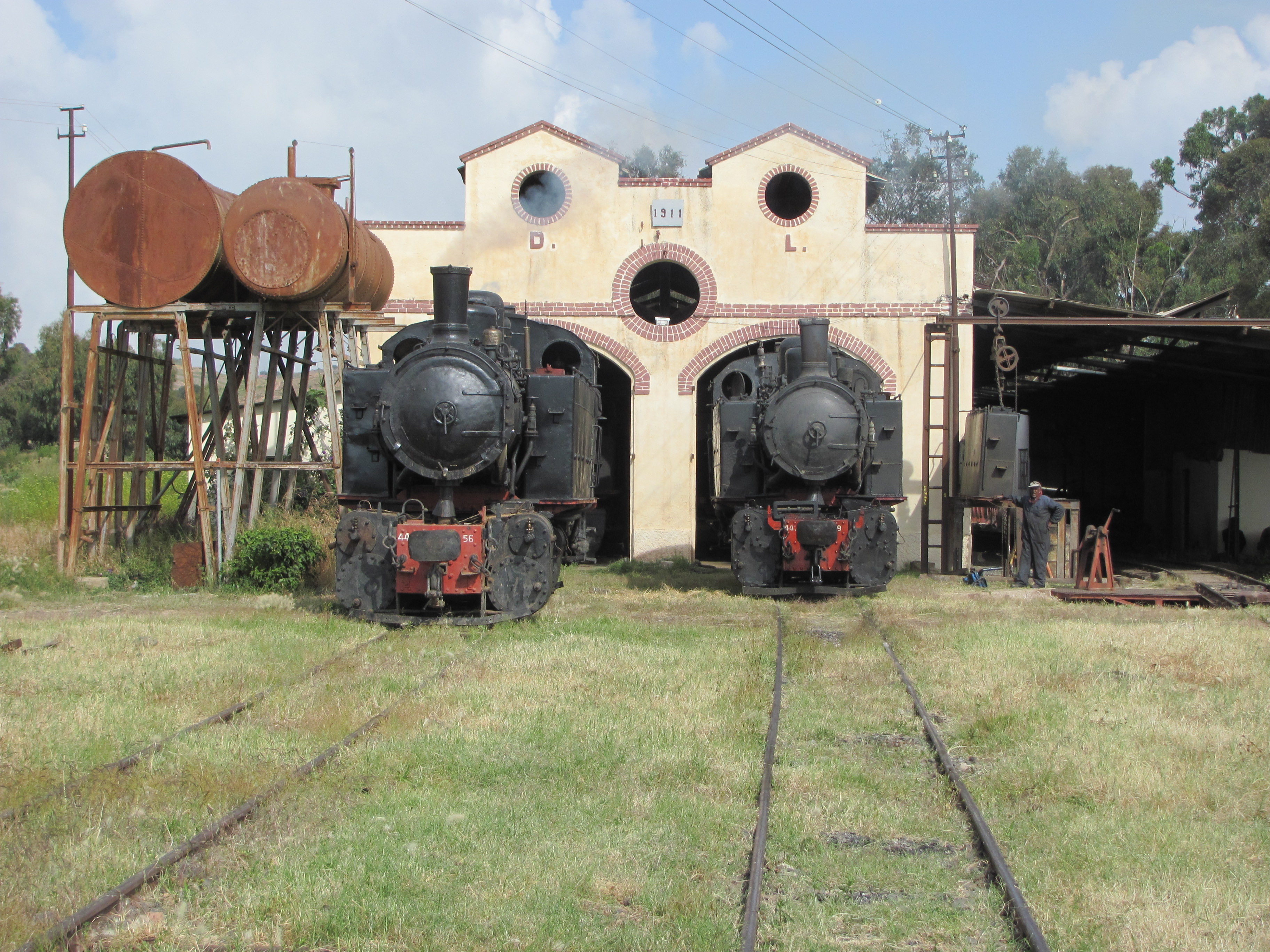 Rlöy repair shop Asmara